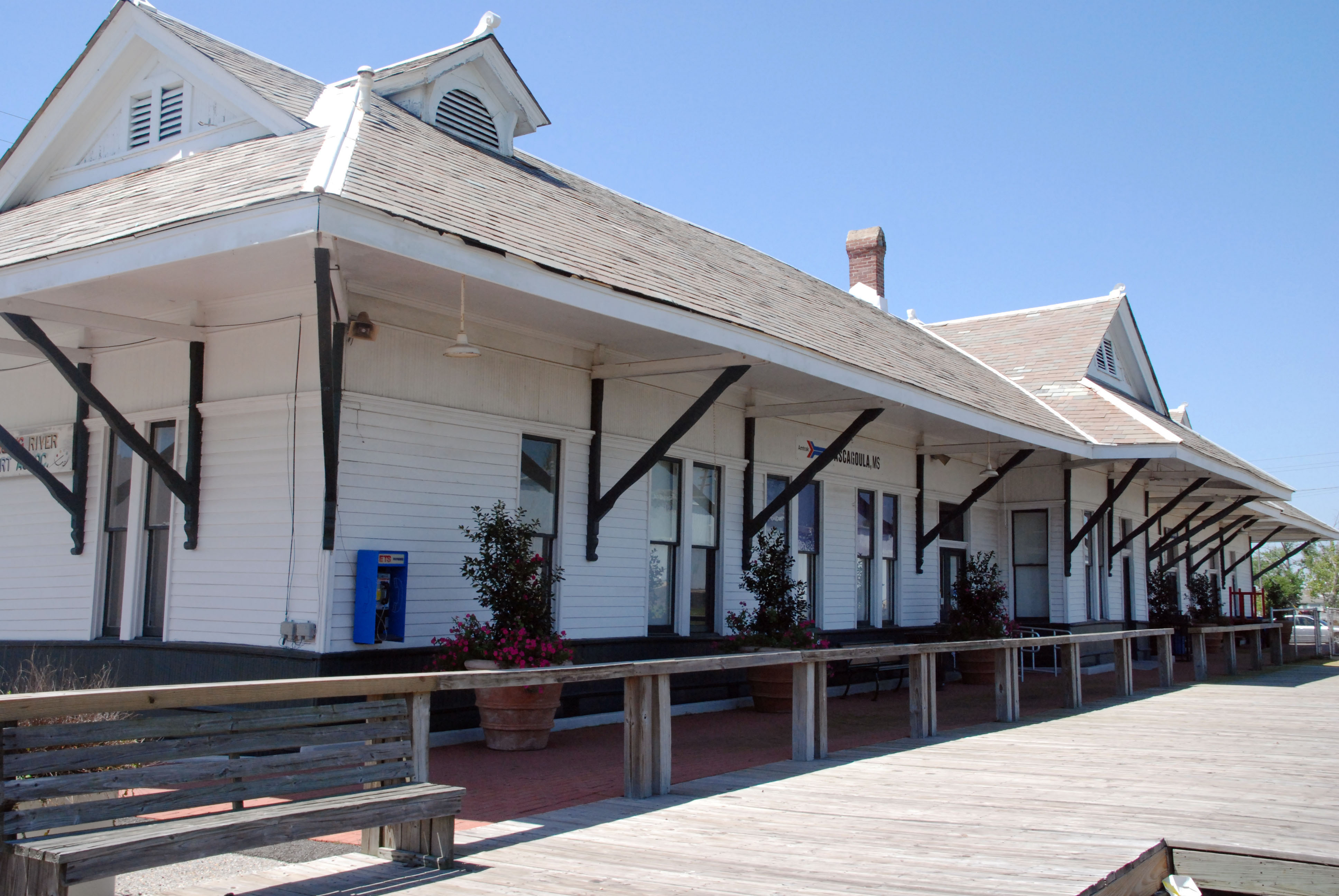 Pascagoula, MS, April 16, 2008 -- The Pascagoula Art Depot reopened earlier this year after receiving damage from Hurricane Katrina. The city received FEMA funding for the restoration of the structure, which is used as a gallery for local artists. Jennifer Smits/FEMA.